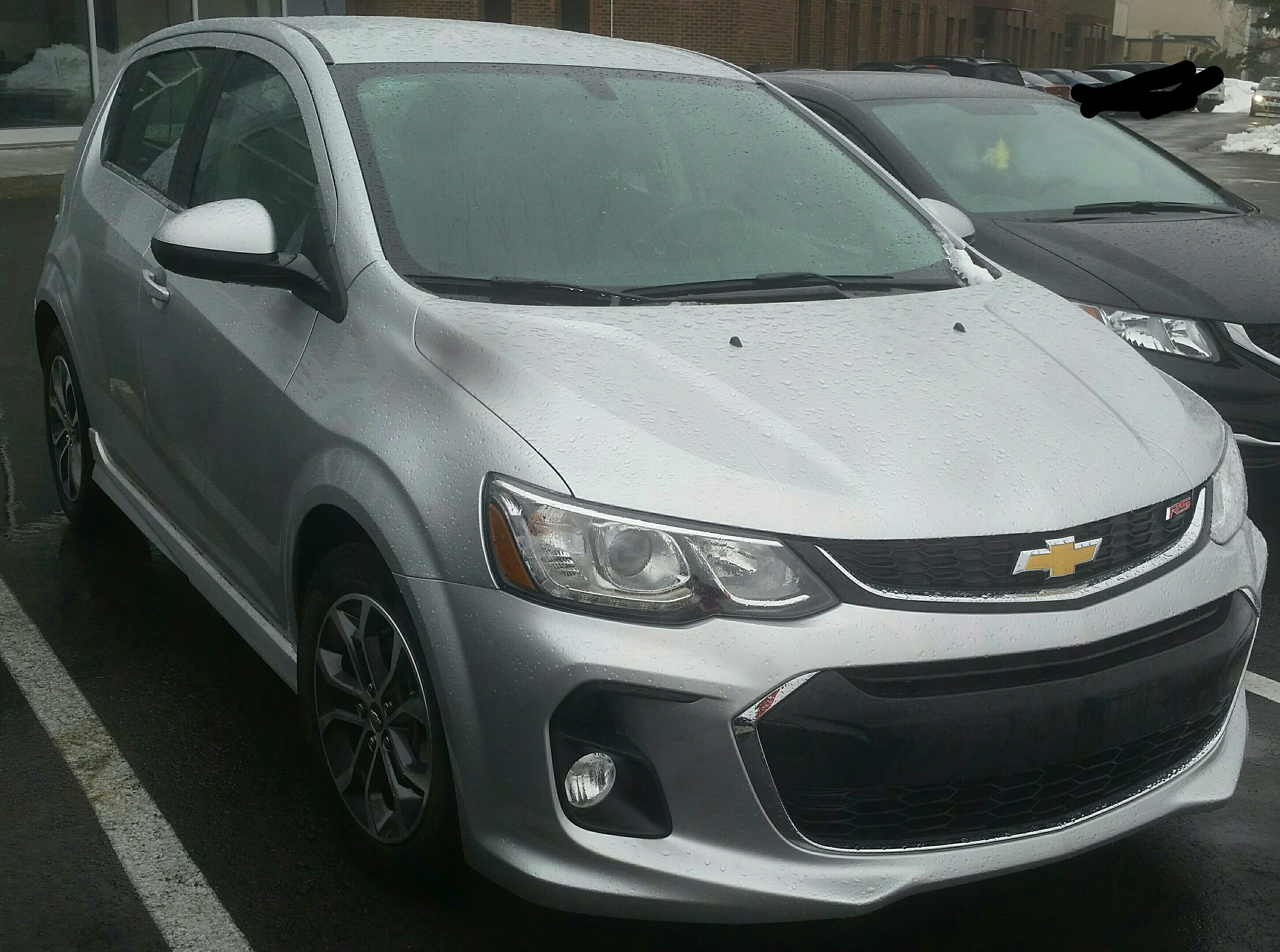 2017 Chevrolet Sonic photographed in Pointe-Claire, Quebec, Canada.